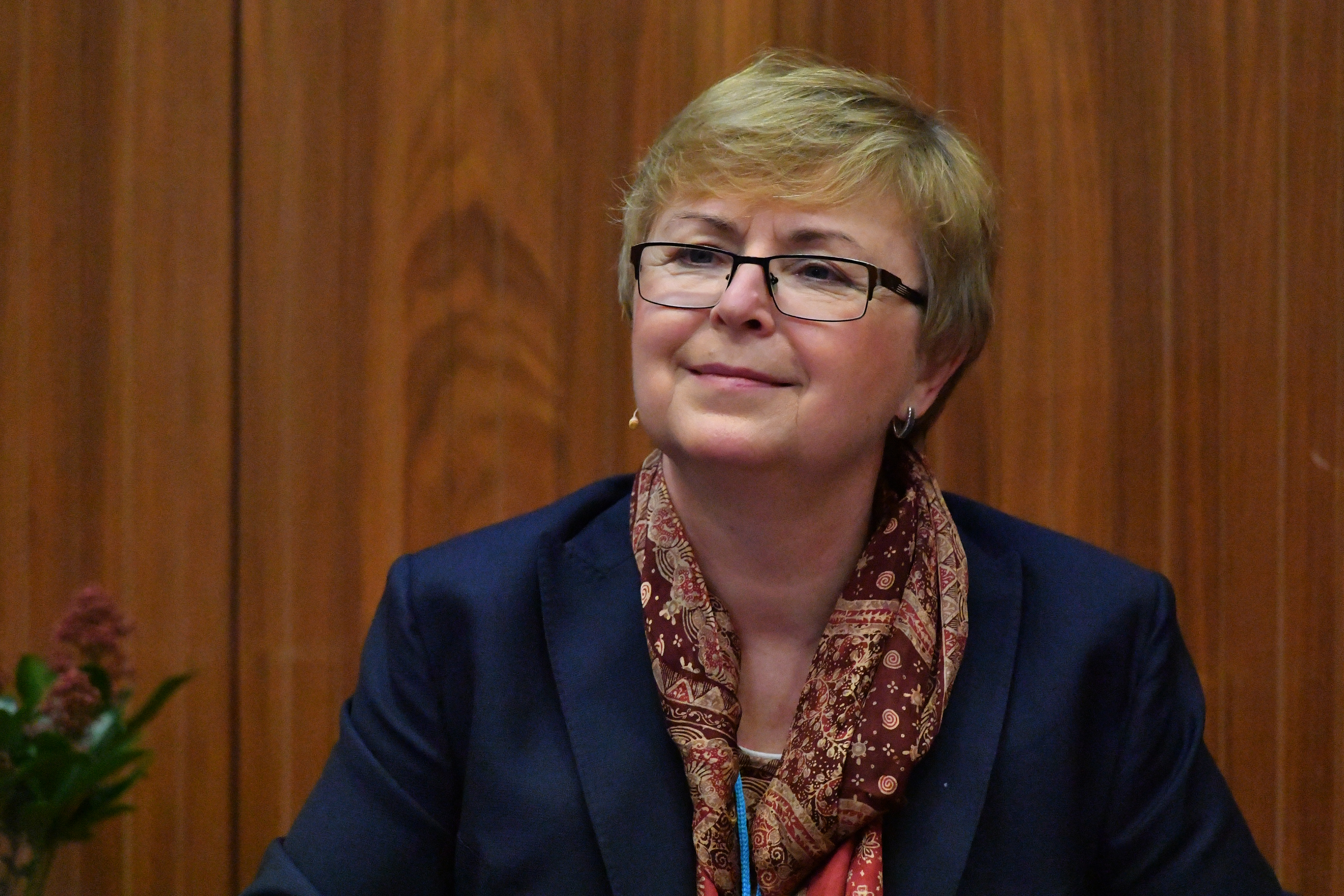 Meeting of the IAEA Board of Governors to listen to presentation by the four candidates for the post of Director General, held at the Agency headquarters in Vienna, Austria. IAEA Director General, Cornel Feruta, IAEA Acting Director General and candidate from Romania Rafael Mariano Grossi, Argentina’s Ambassador to Austria and Resident Representative to International Organizations in Vienna Lassina Zerbo, Executive Secretary of the Comprehensive Nuclear-Test-Ban Treaty Organization and candidate from Burkina Faso Marta Ziakova, Chairperson of the Nuclear Regulatory Authority of the Slovak Republic Photo Credit: Dean Calma / IAEA